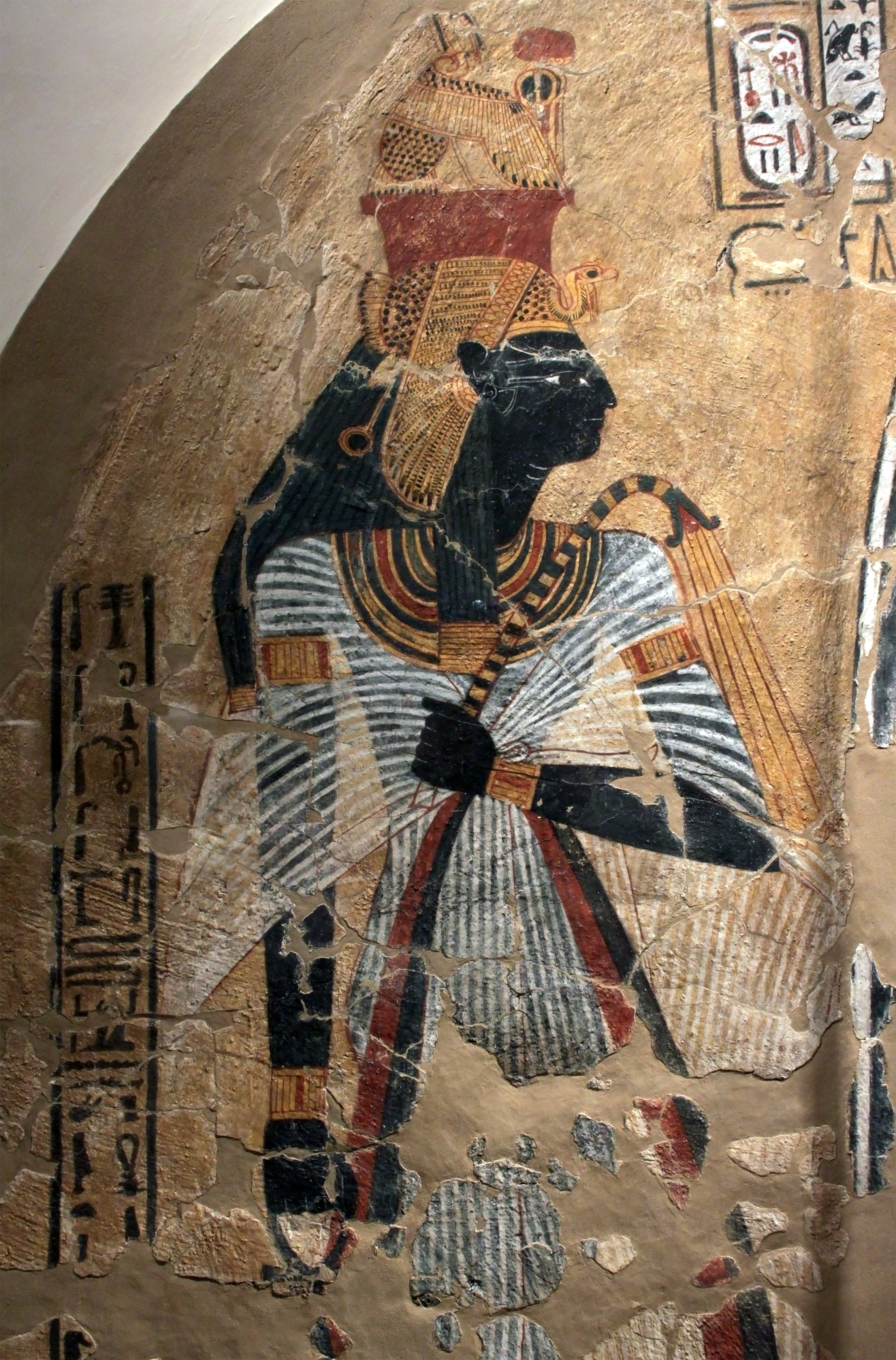 Painting from a tomb featuring the deified queen Ahmose-Nefertari. From Deir el-Medine, tomb TT 359 : Tomb of Inherkha. New Kingdom, 20th Dynasty, 1186-1070 BCE. Currently in Neues Museum, in Berlin. ÄM 2060.